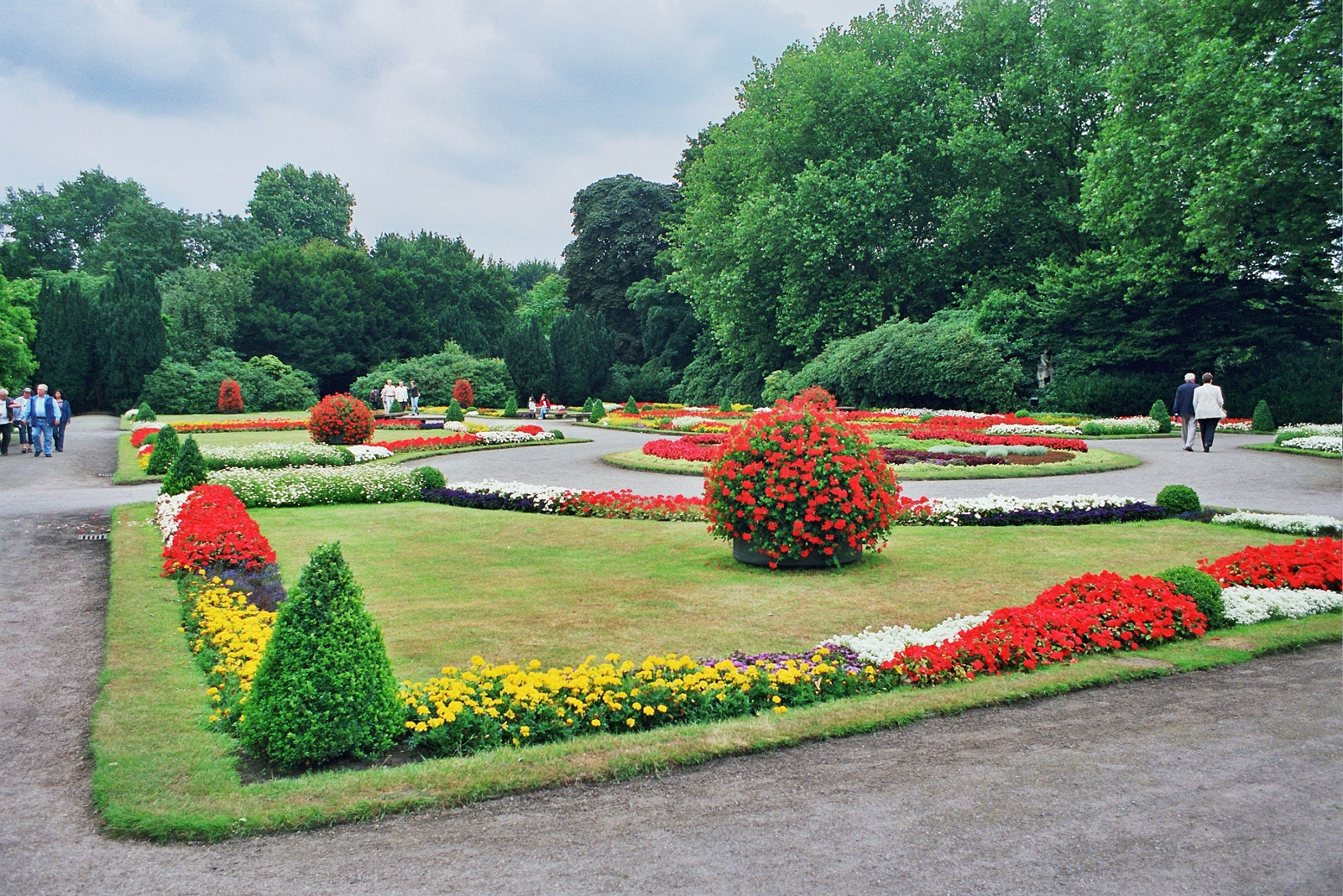 Castle Berge, part of the French garden